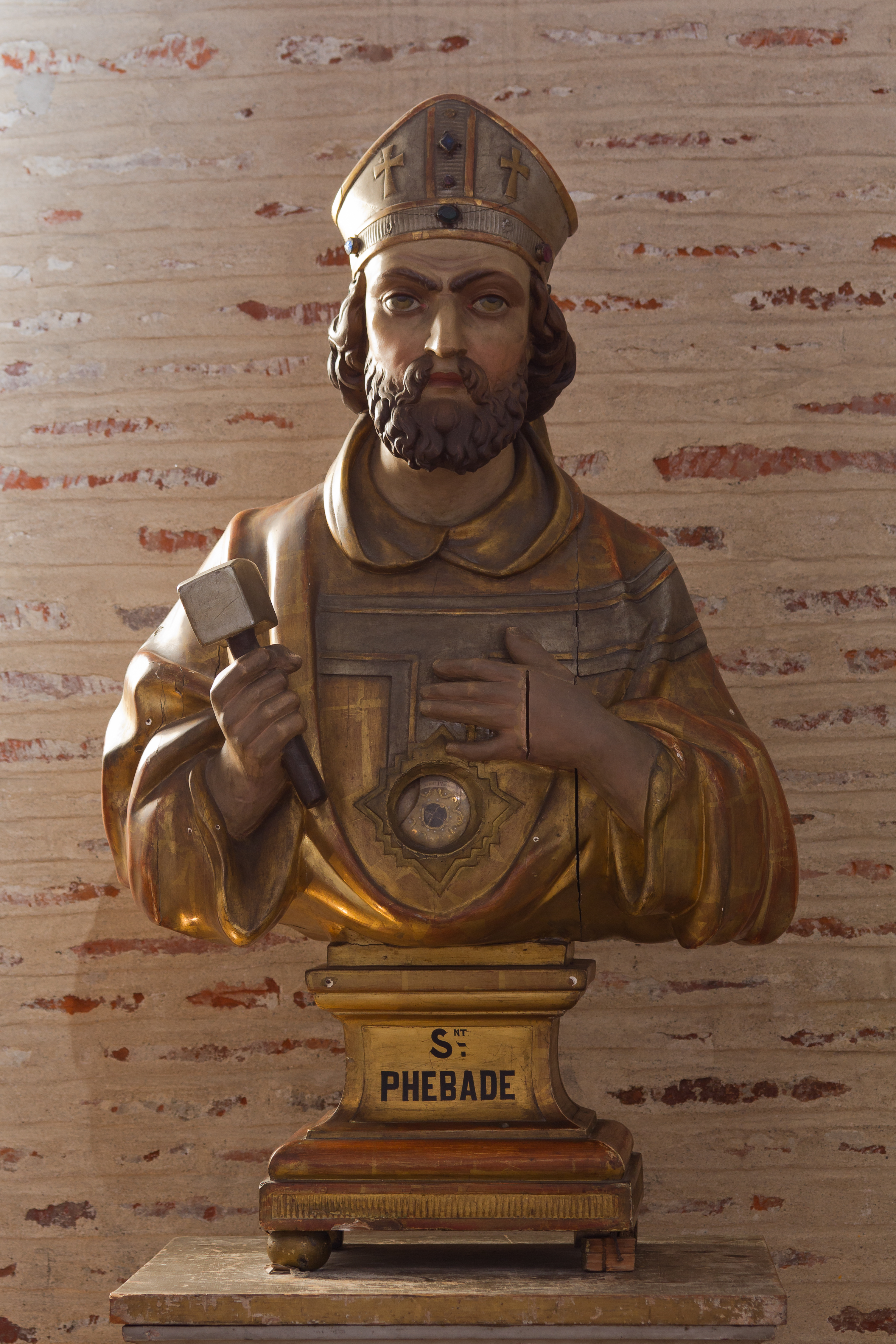 Bust of Saint Phebade in Basilica of Saint Sernin in Toulouse.